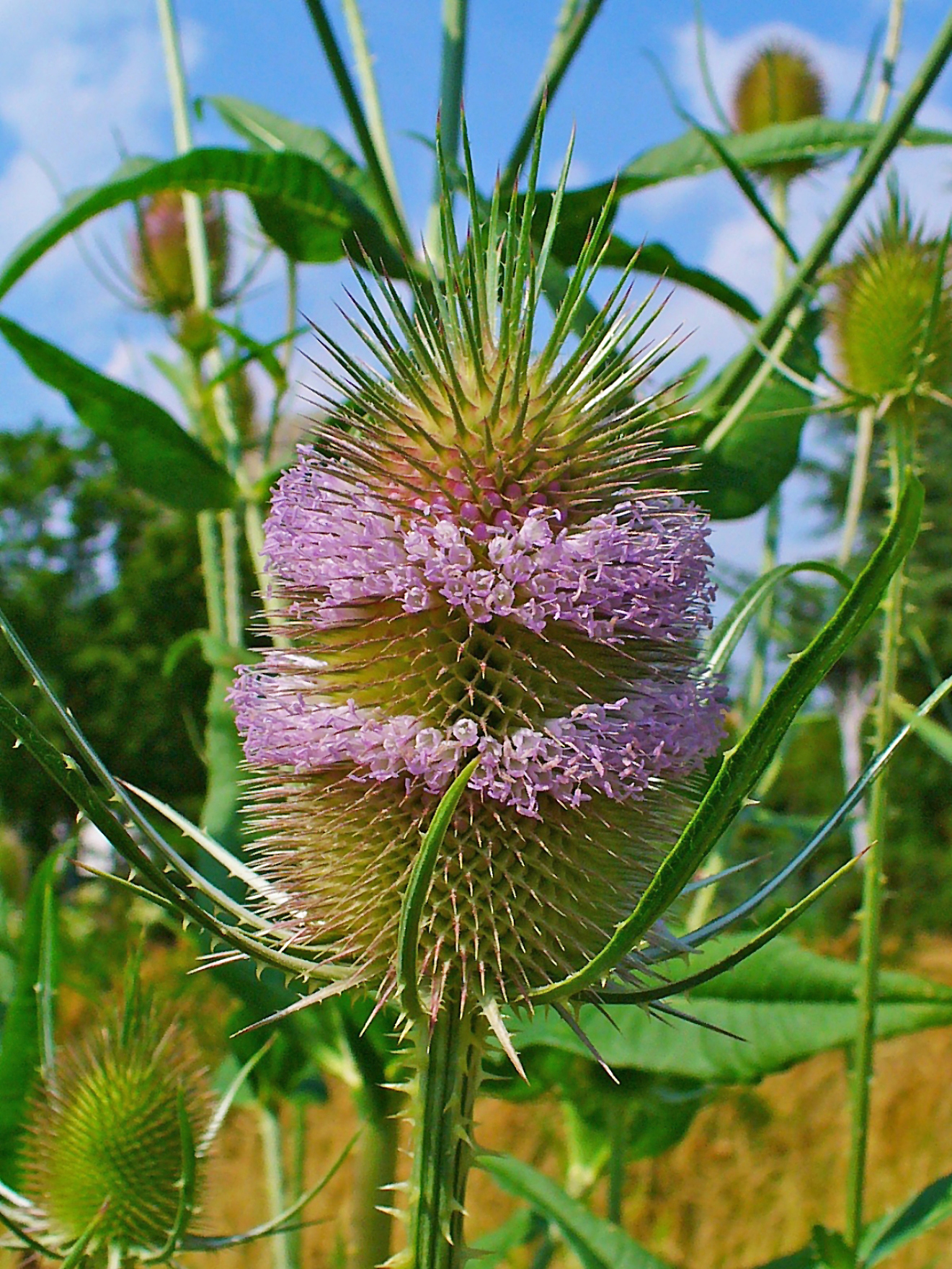 Dipsacus fullonum, Dipsacaceae, Fuller's Teasel, Wild Teasel, inflorescence; Botanical Garden KIT, Karlsruhe, Germany. The blooming plant is used in homeopathy as remedy: Dipsacus silvestris (Dips-s.)